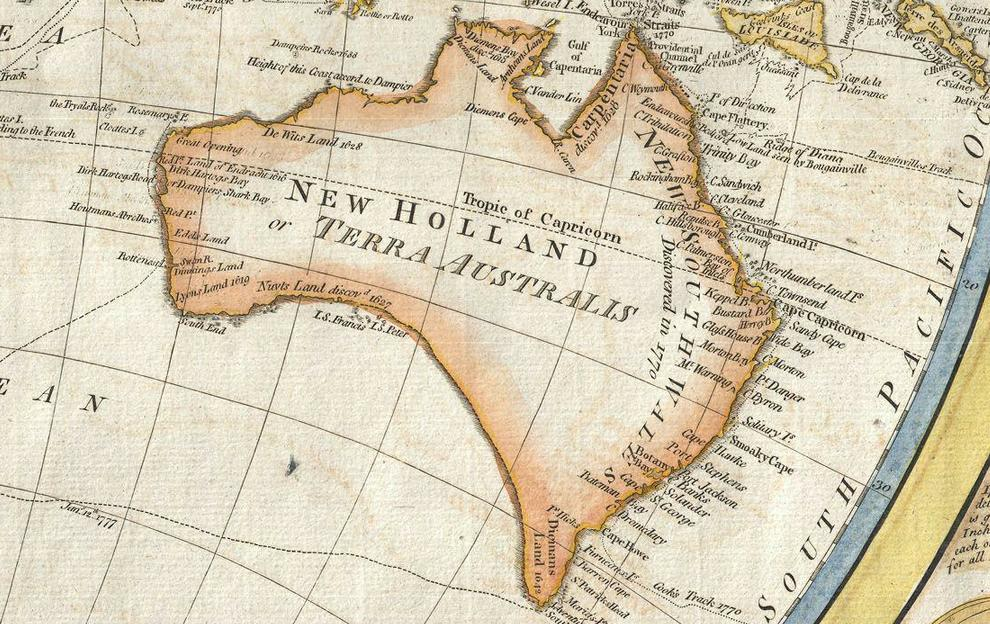 Australia in 1794 Samuel Dunn Map of the World in Hemispheres